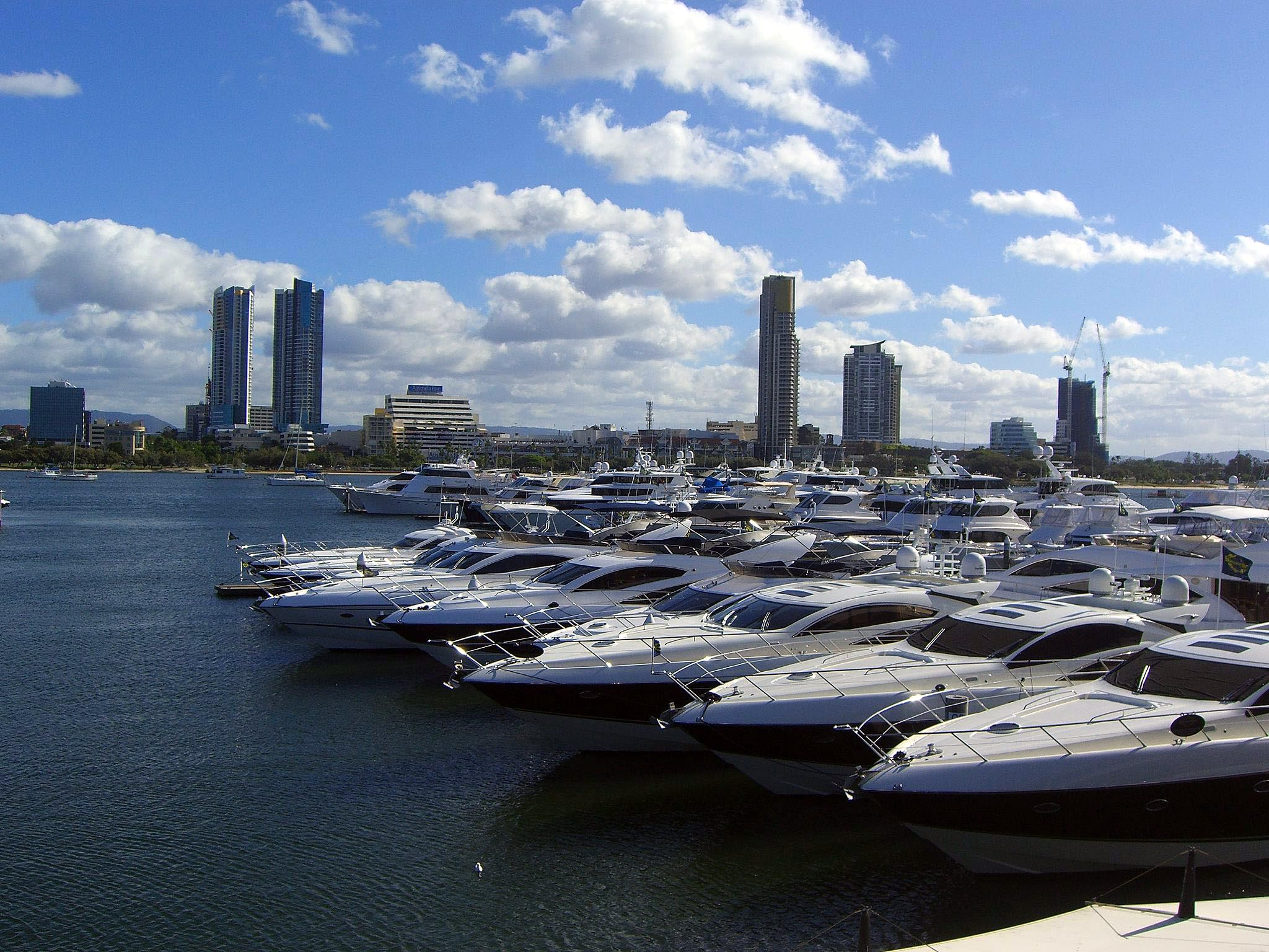 Luxury yatchs - Gold Coast, QLD.jpg